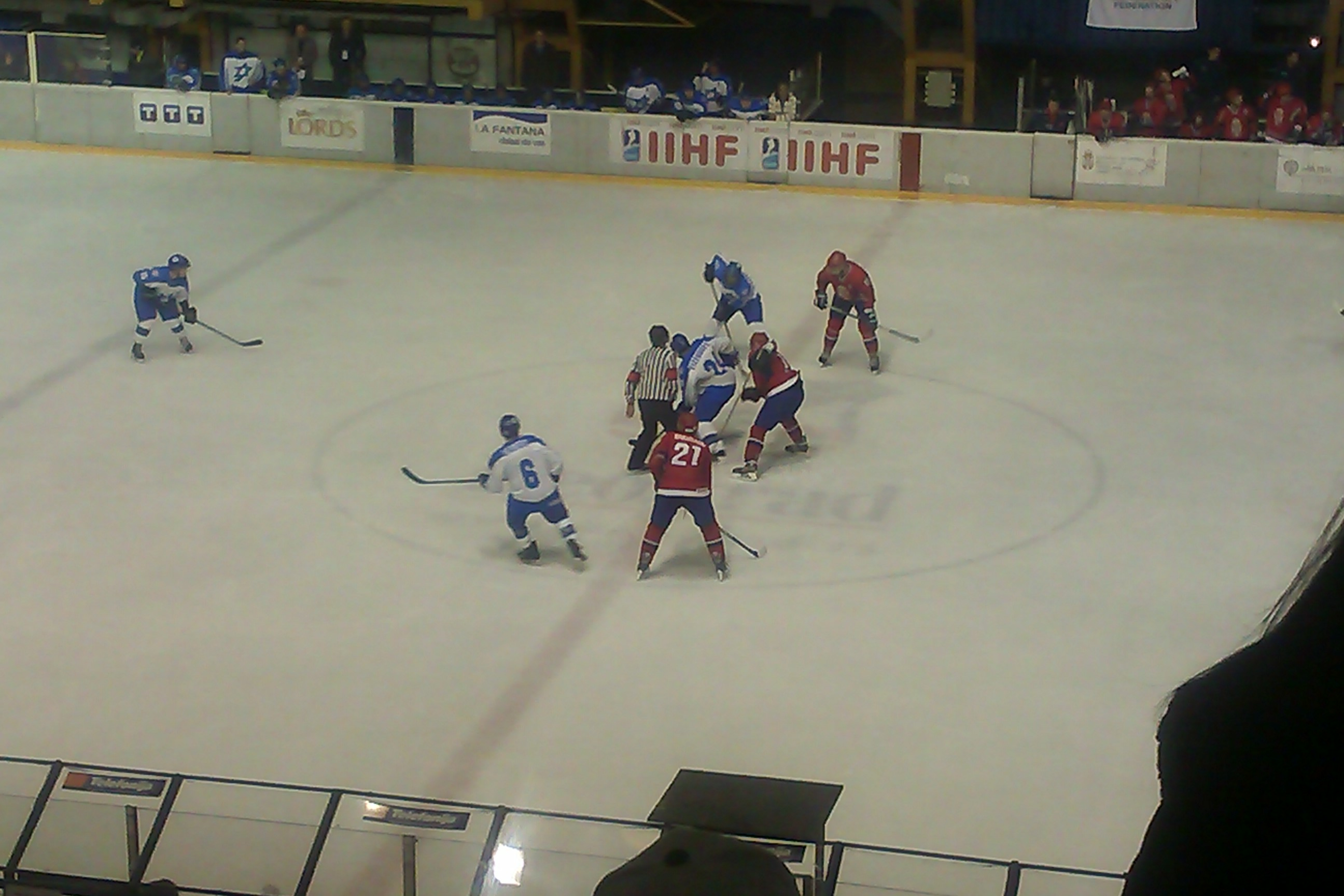 2014 IIHF World Championship Division II Serbia - Israel 10:6 in Belgrade 10. april 2014Српски (ћирилица): Светско првенство у хокеју на леду 2014 — Дивизија II, Србија - Израел 10:6 у Београду 10. априла 2014